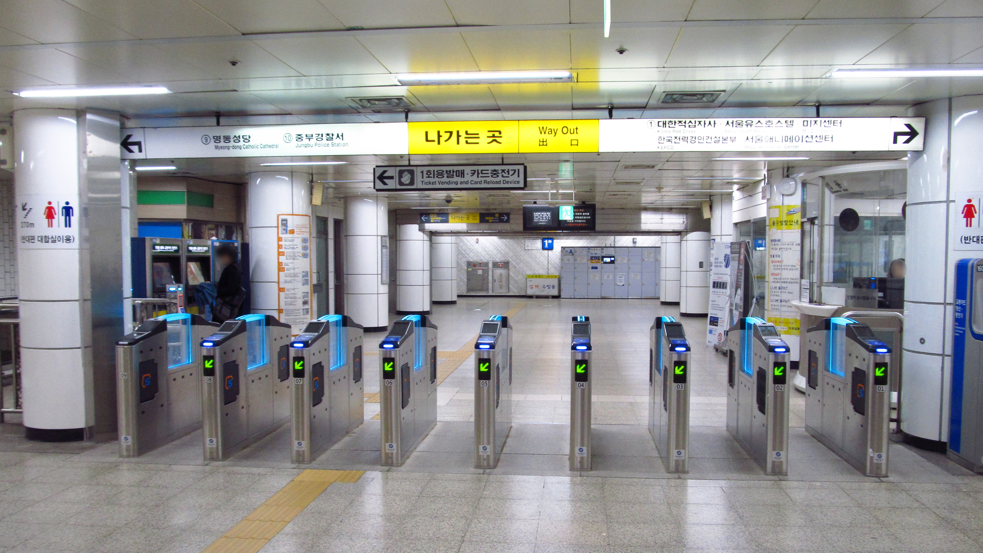 The gate of Myeongdong Station on Seoul Subway Line 4 in Jung-gu, Seoul, Republic of Korea(South Korea)